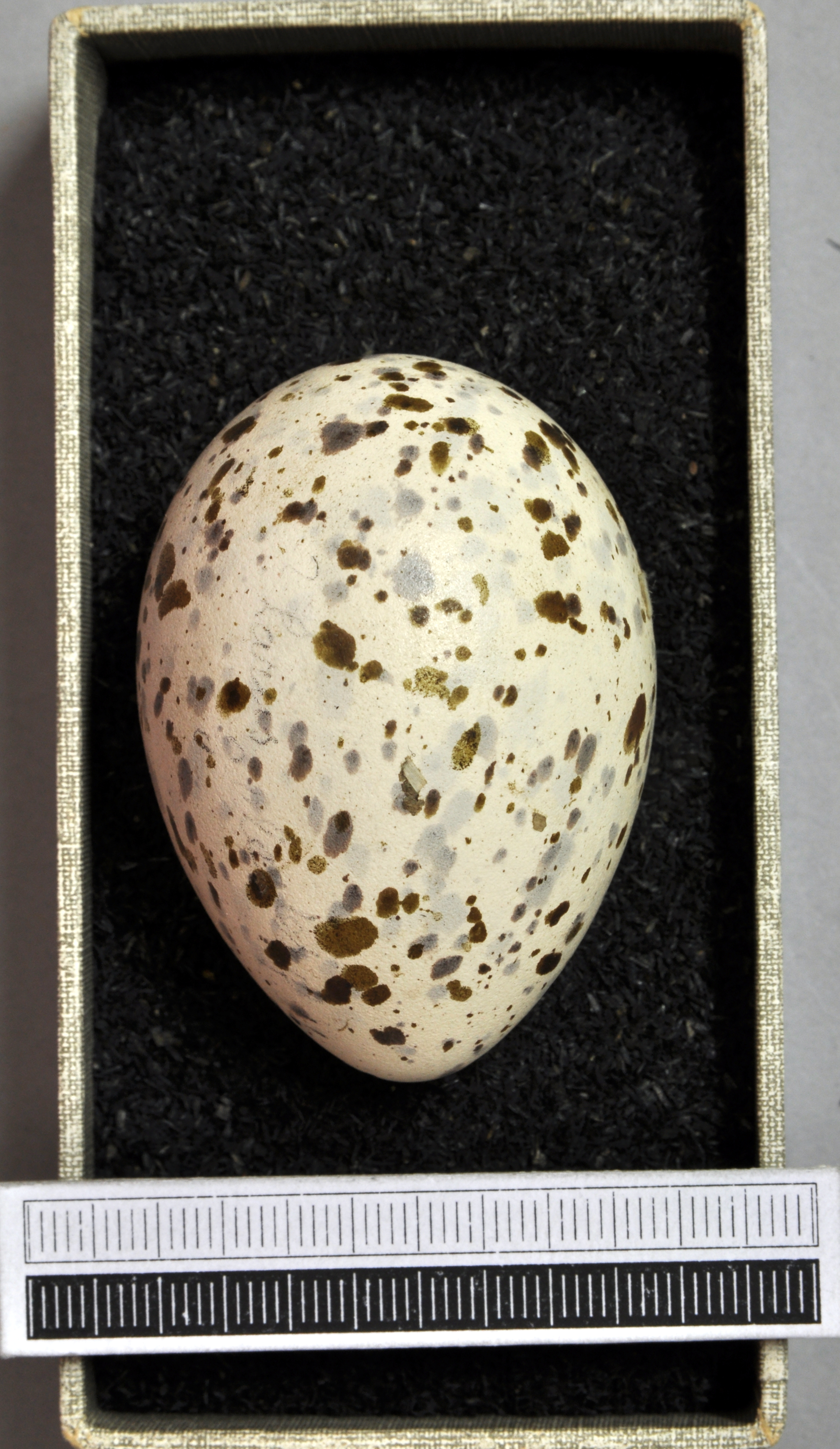 Slender-billed gull Larus genei , egg, Coll. Museum Wiesbaden